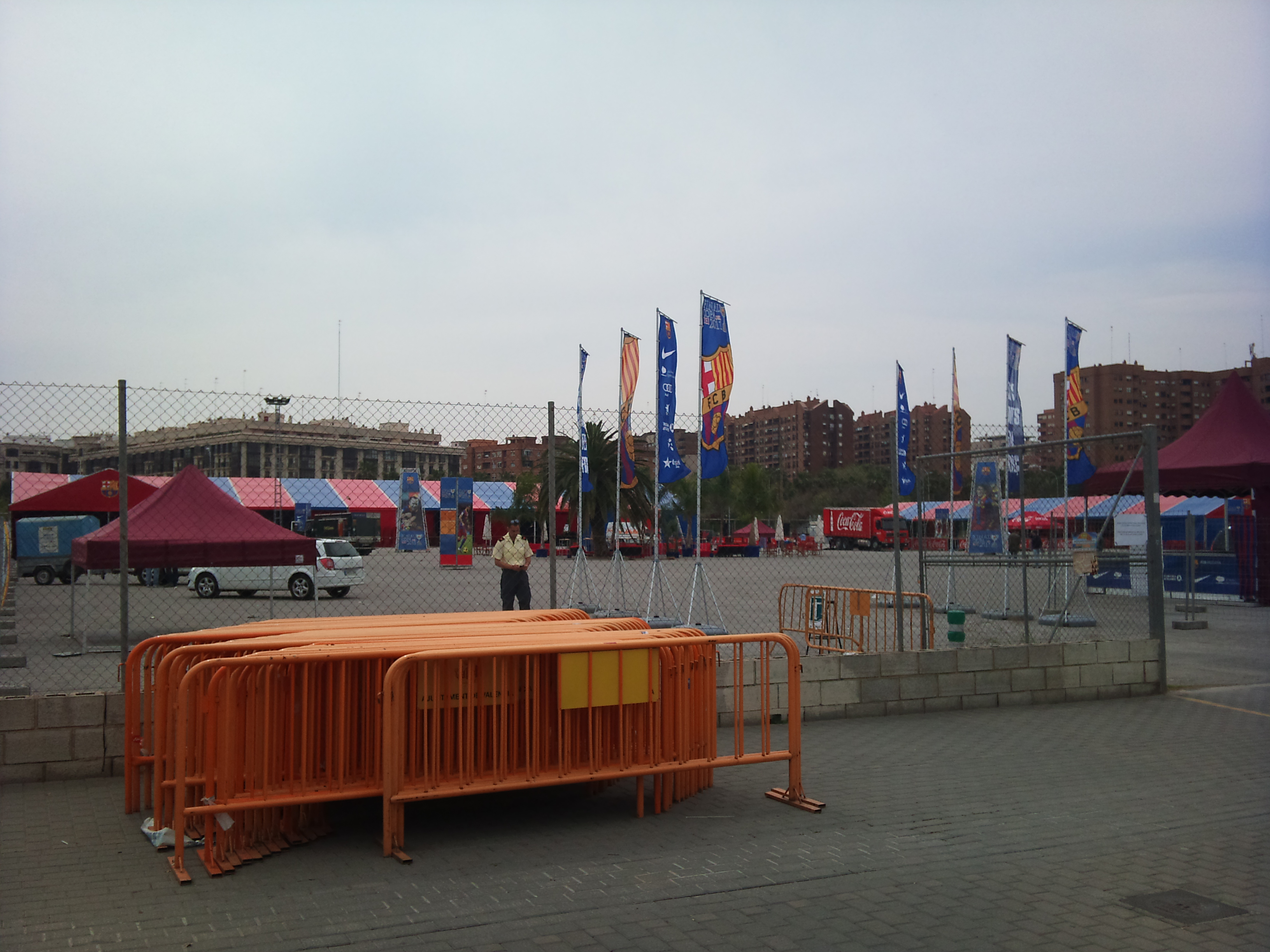 FC Barcelona's Fan Zone for the 2011 Copa del Rey's final.